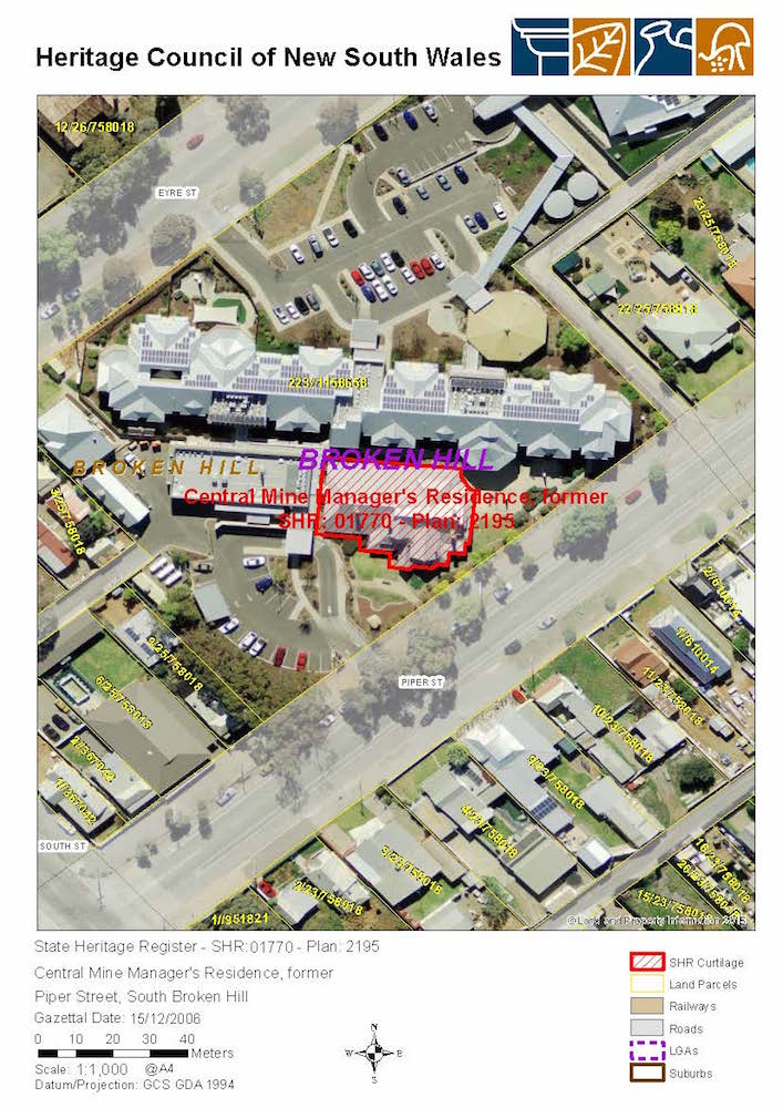 Central Mine Manager's Residence: SHR Plan 2195